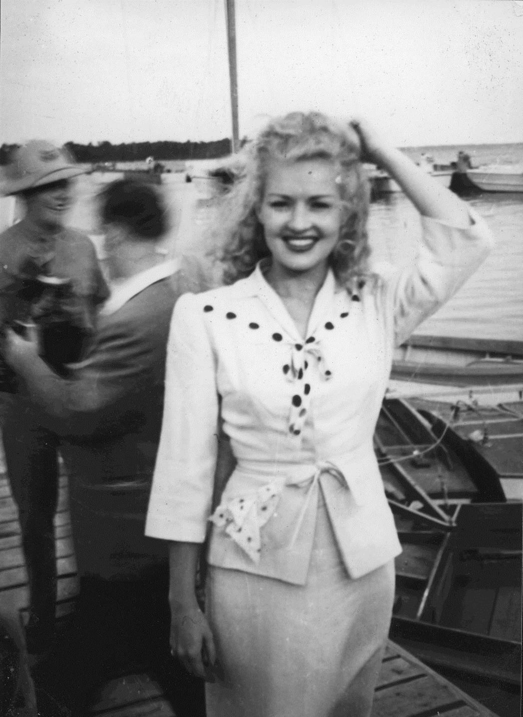 Betty Grable visits the Marines at New River, North Carolina. From the Edwin Kochmanski Collection (COLL/5467) at the Marine Corps Archives and Special Collections OFFICIAL USMC PHOTOGRAPH